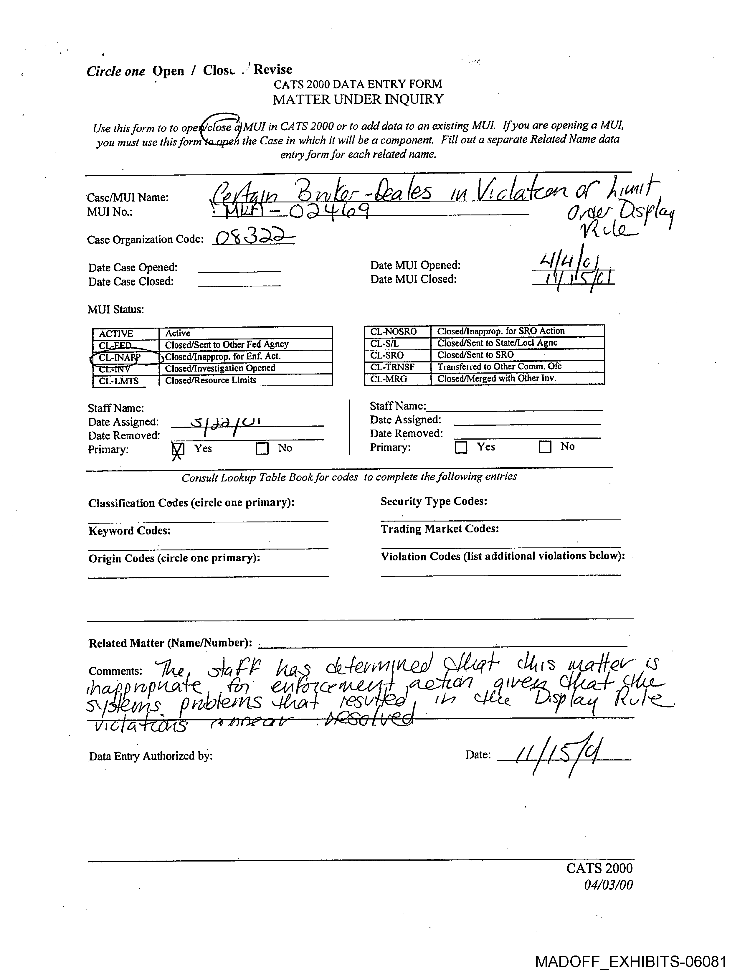 US Securities and Exchange Commission, Office of Inspector General, OIG-509 report, on Bernard Madoff case